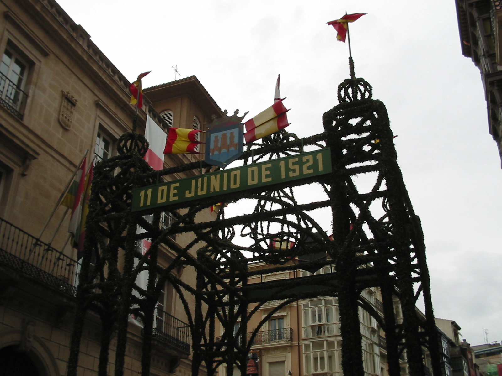 Detail of traditional San Bernabé arch -set for the festivity of the same name- in Portales Street in Logroño, La Rioja (Spain)